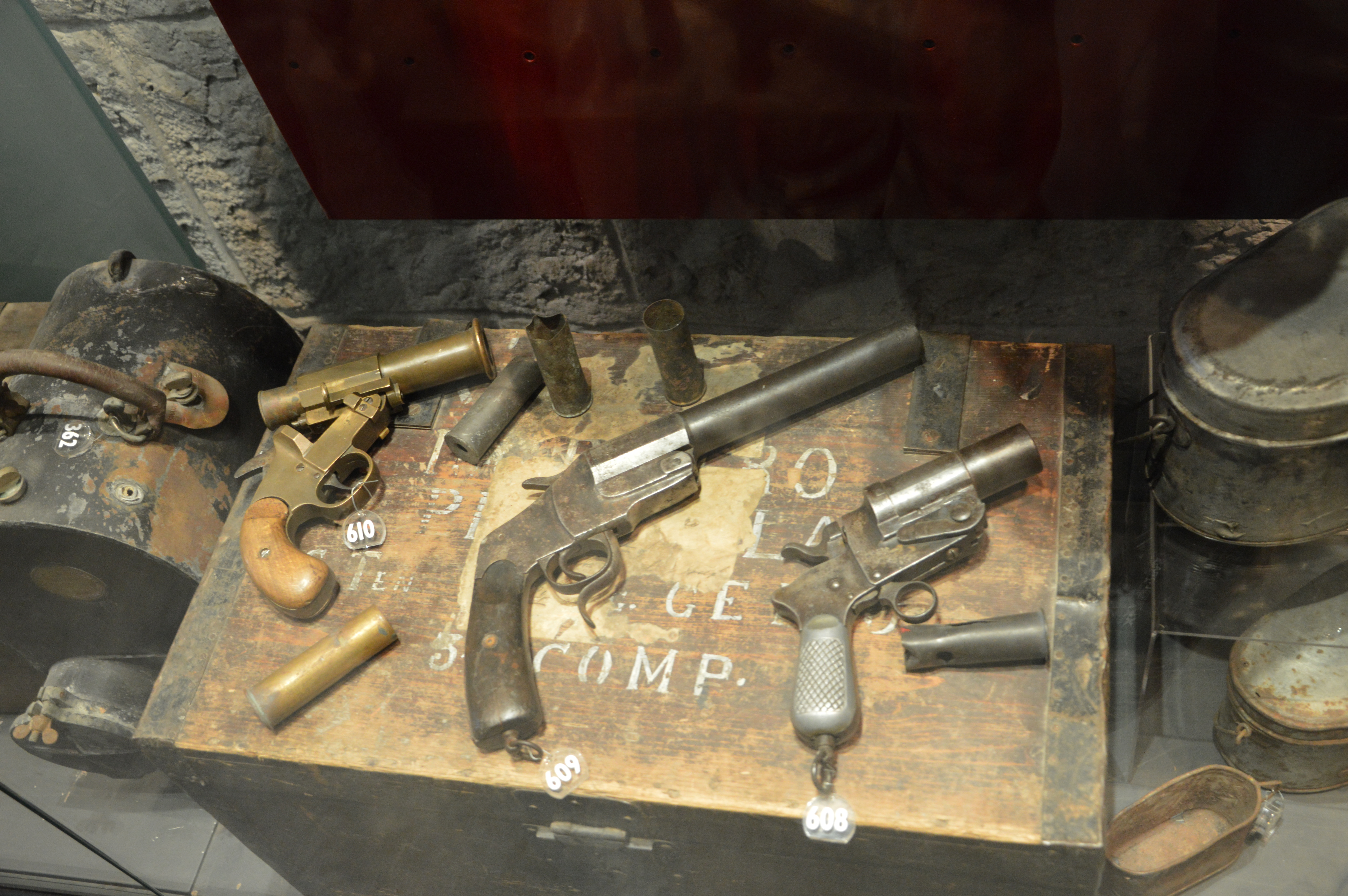 Three flare pistols. Used in WWI, taken at the Tre Sassi museum at Passo di Valparola (Belluno)